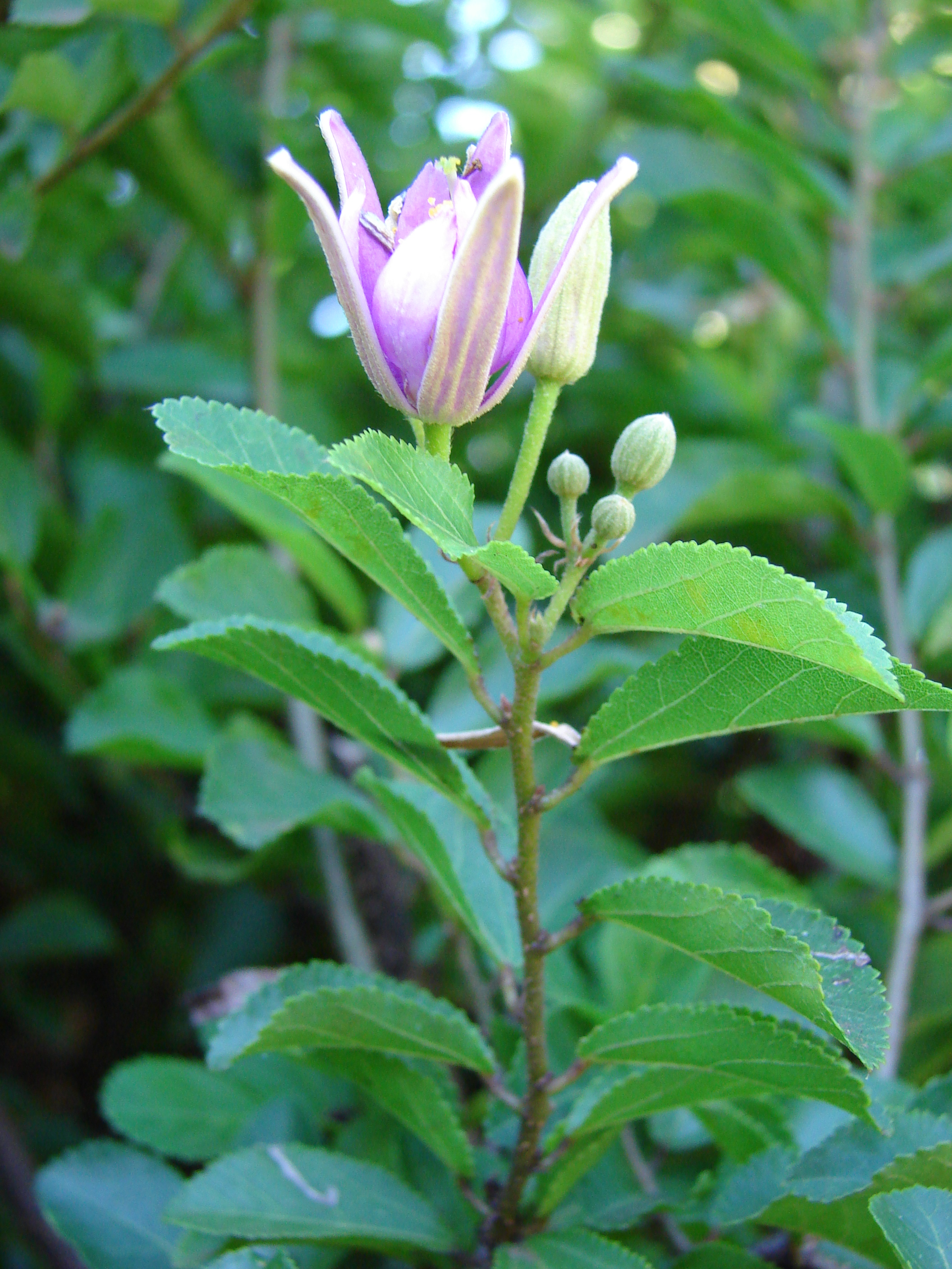 Grewia occidentalis (flowers and leaves). Location: Maui, Enchanting Floral Gardens of Kula